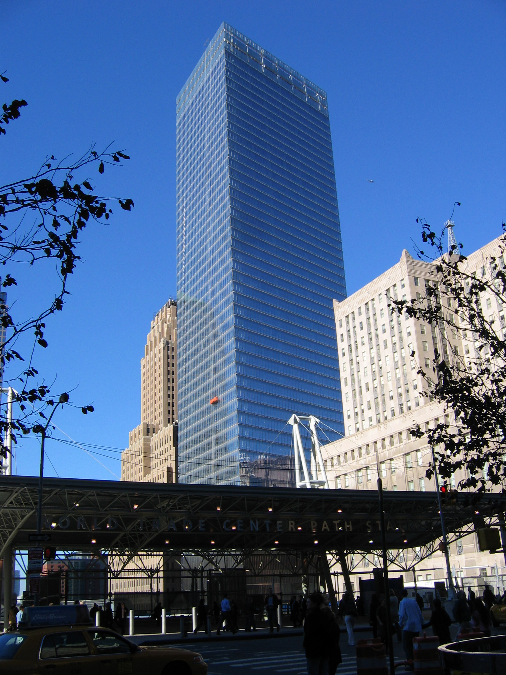 PATH station entrance, with WTC7 in the background.